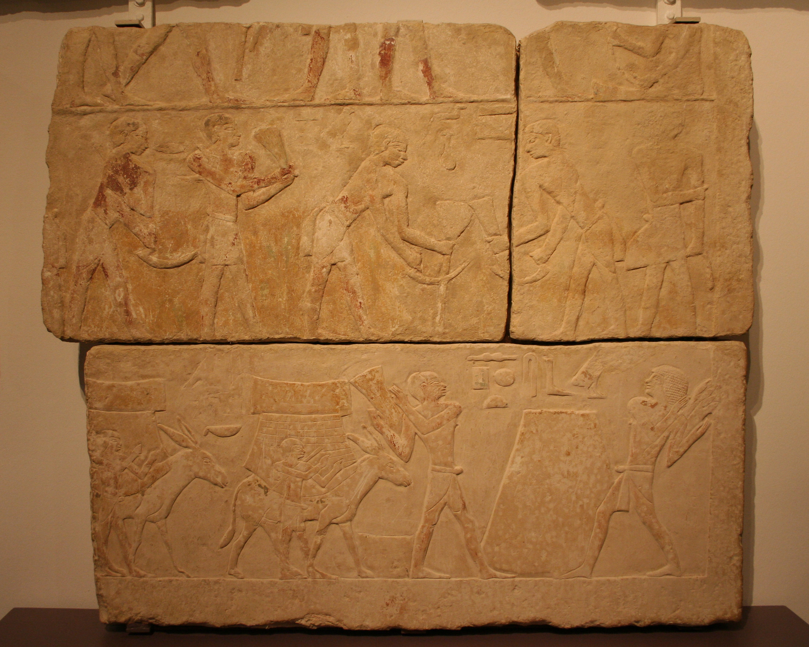 Harvest scene from the tomb of Seshemnefer IV. 6th dynasty. Giza necropolis. Limestone. H 84.5 cm. IN 3191. Roemer-Pelizaeus Museum, Hildesheim